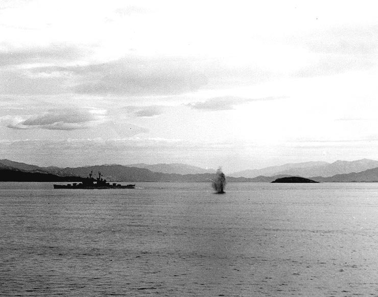 USS Manchester (CL-83) engaging shore batteries off Wonsan, North Korea. Photo is dated 17 June 1953. Note splash from an enemy shell that has hit "over". The small island at right is Hwangto-Do.